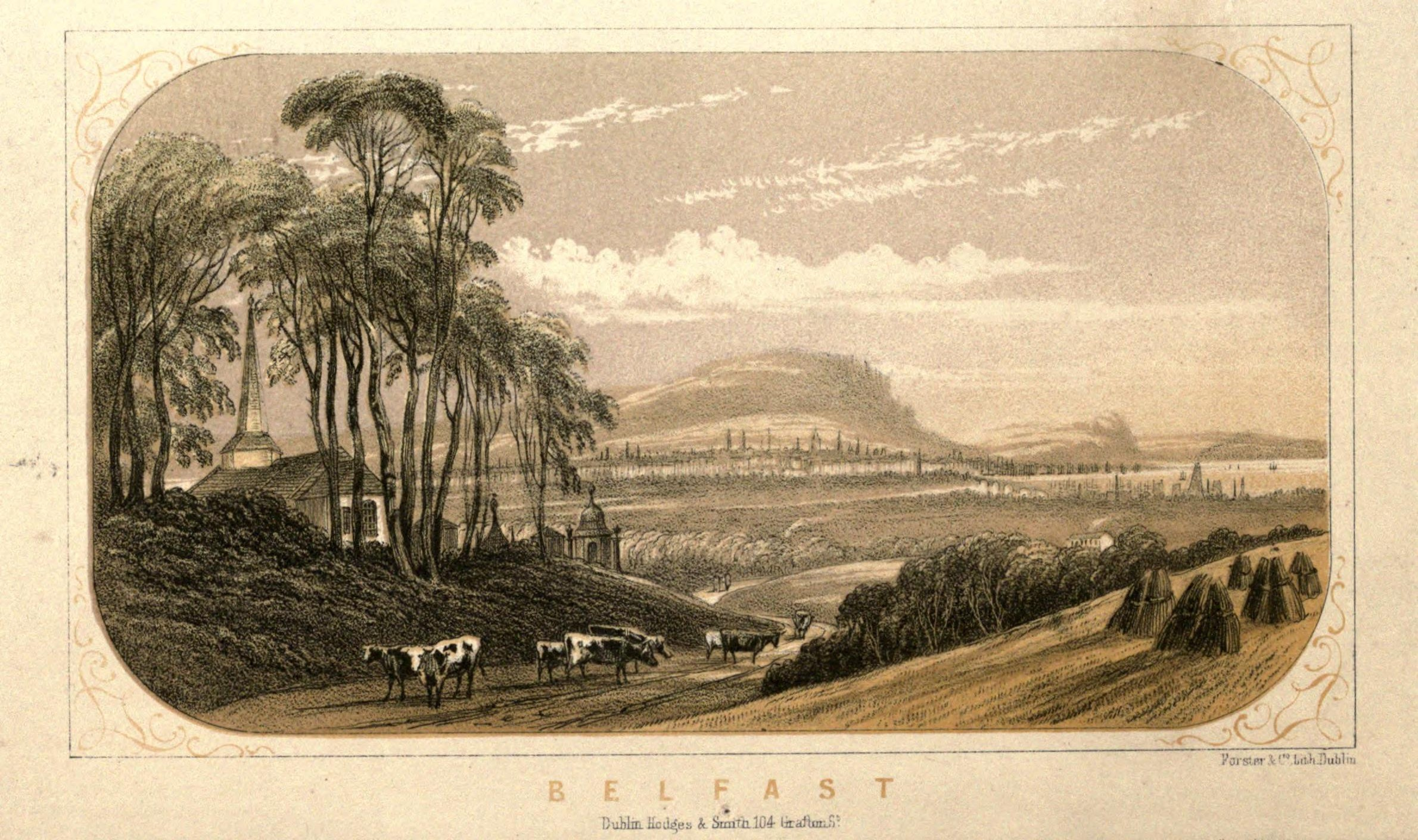 Taken from: Doyle, J. B. (1854). Tours in Ulster: a hand-book to the antiquities and scenery of the north of Ireland. Dublin: Hodges and Smith.